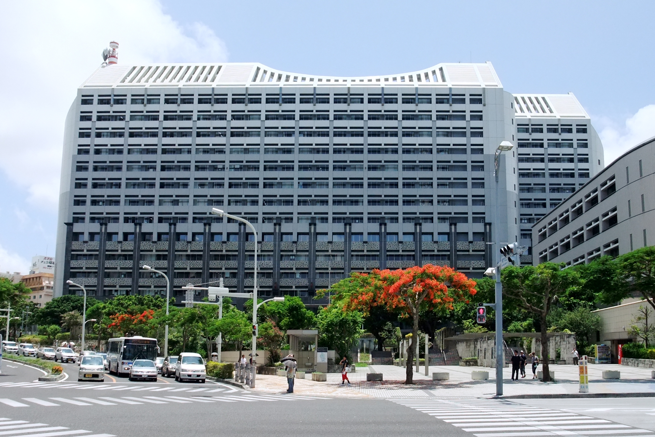 Okinawa Prefectural Government Headquarters, Naha, Okinawa prefecture, Japan